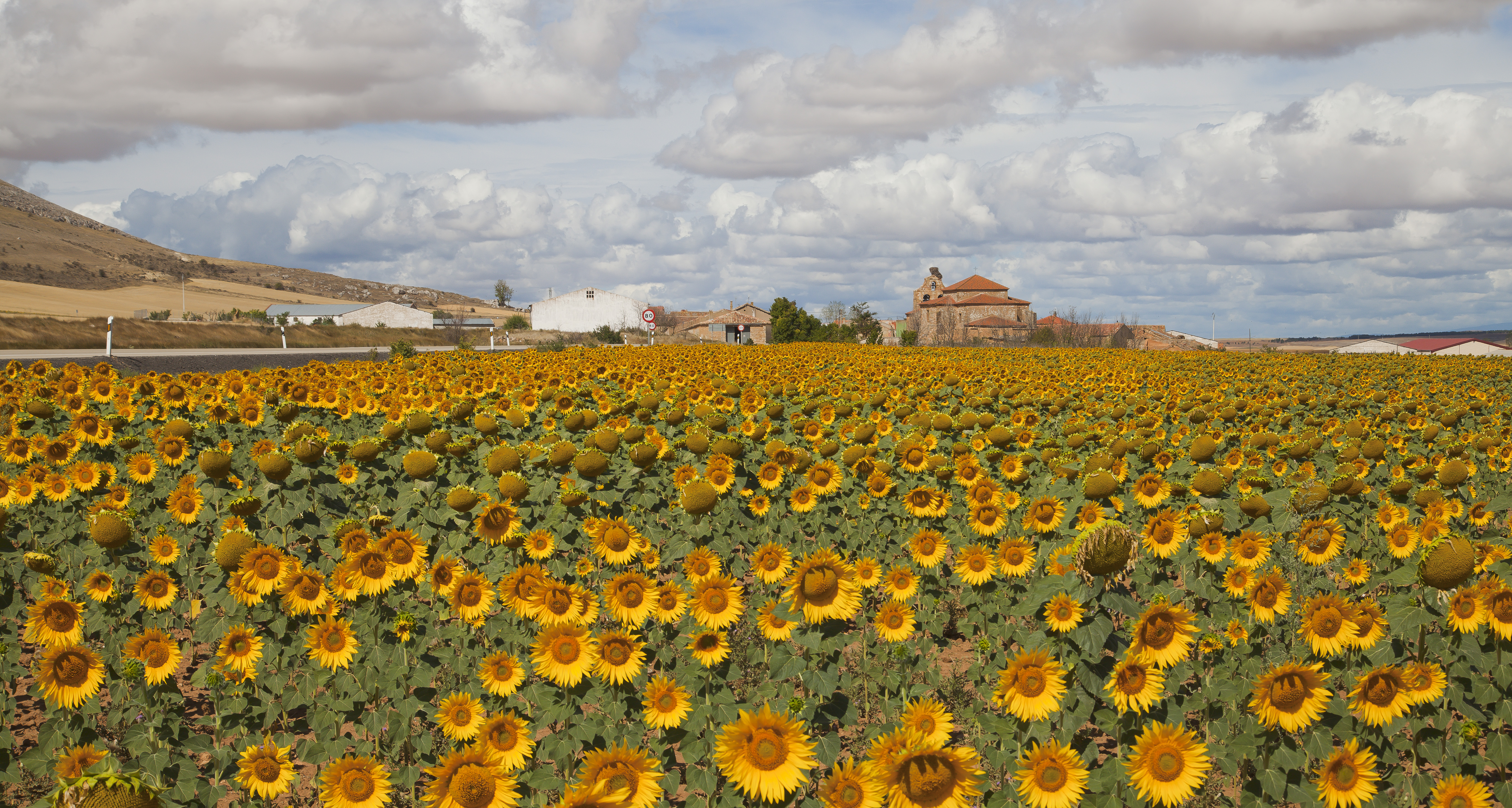 Church of Nuestra Señora de la Blanca behind a field of sunflowers, Cardejón, Spain